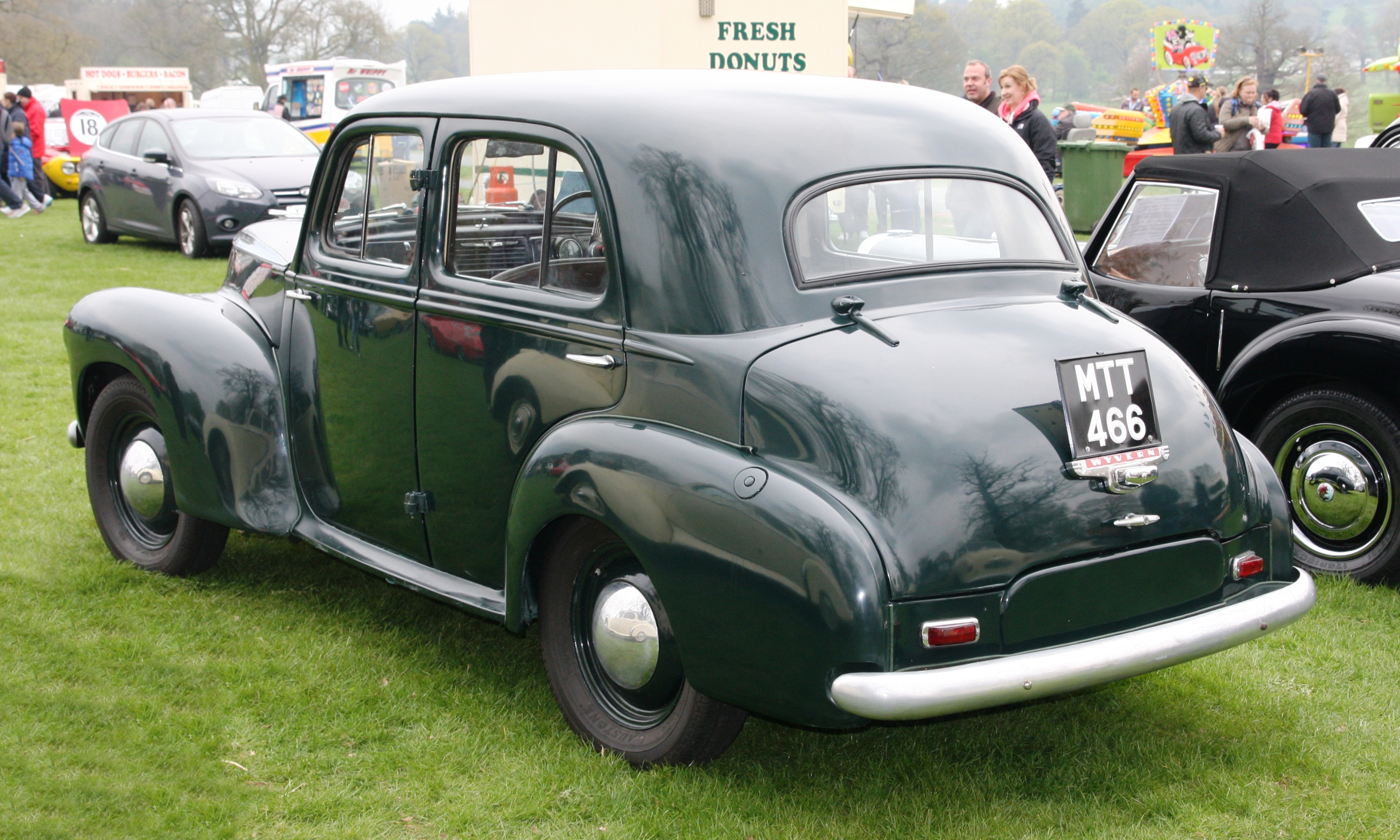 Vauxhall Wyvern behind the donut stand